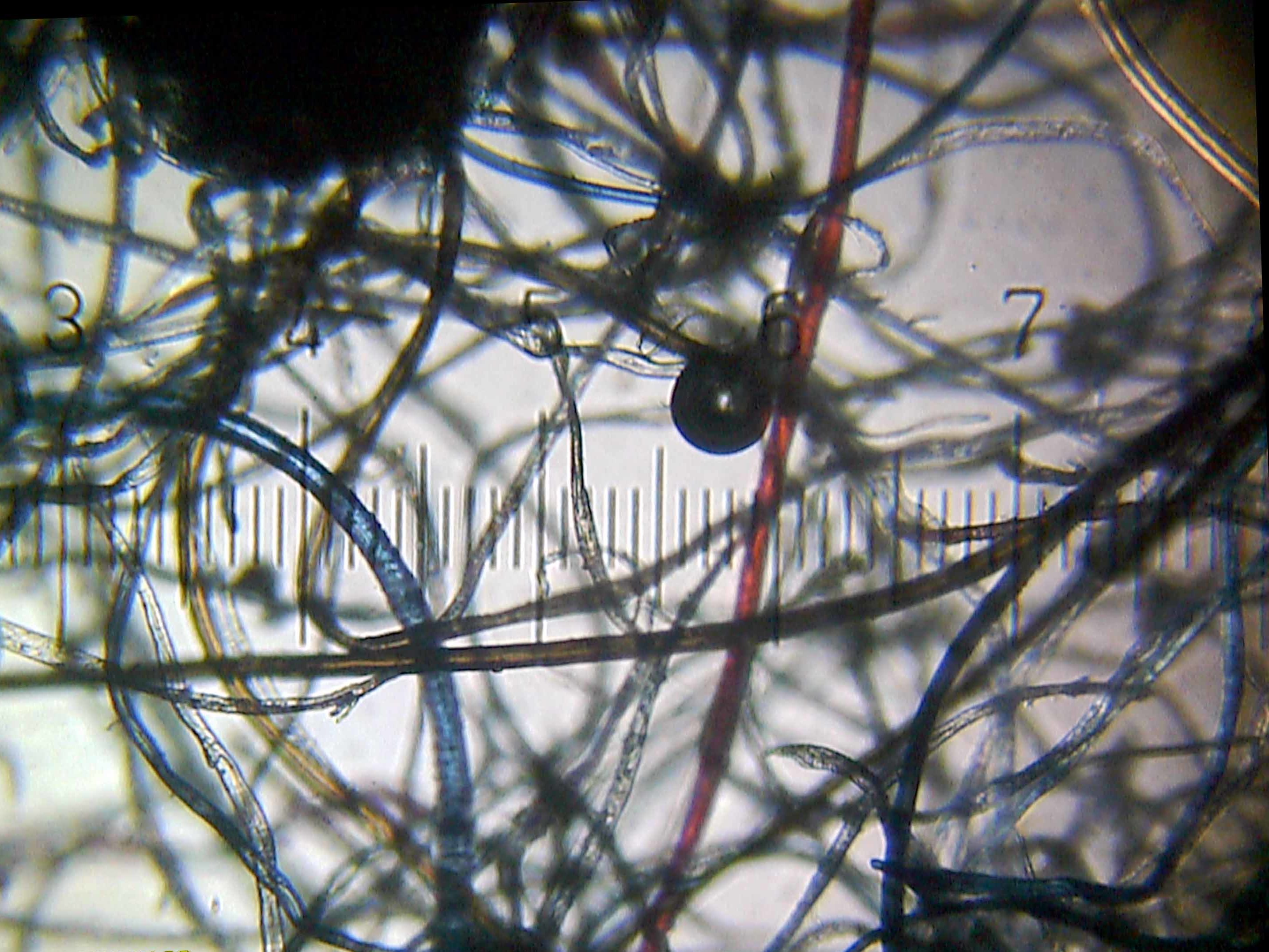 Microscopic view of a dust bunny.